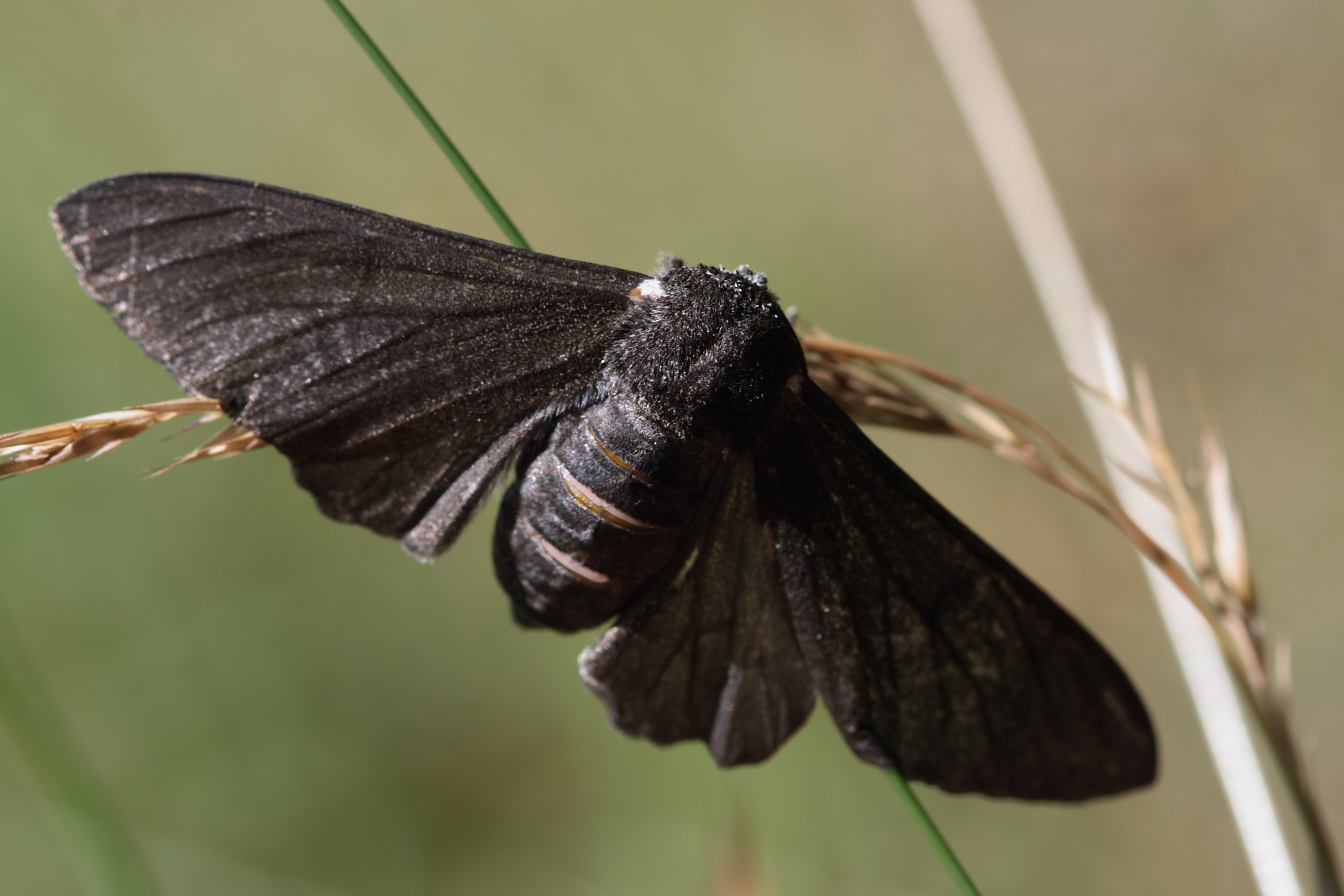 A black-bodied peppered moth (Biston betularia f. carbonaria) in the Ahlenmoor, a hill moor in northern Lower Saxony, Germany. Canon EOS 400D, Canon EF 100mm 1:2.8 Macro USM 1/125 sec, f/6,3, 100 mm, ISO 200